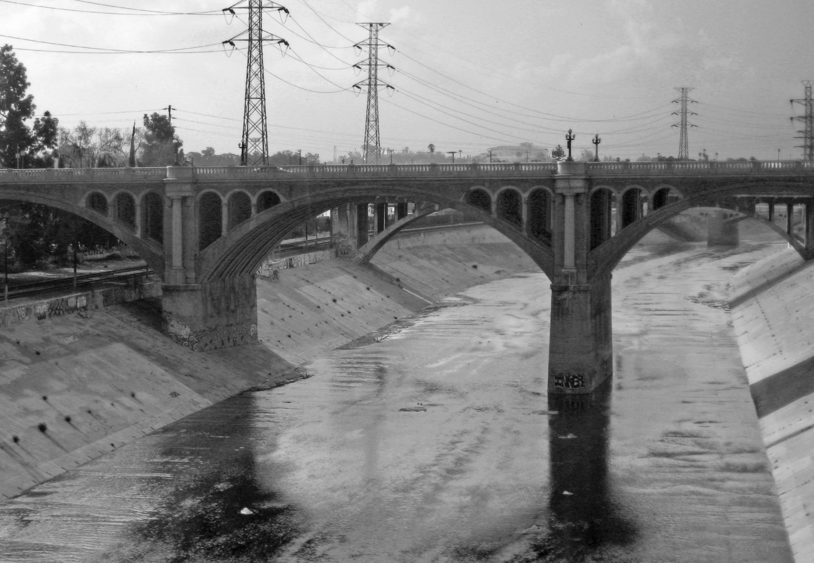 A black and white photo of North Broadway-Buena Vista Viaduct (1909-11) over the Los Angeles River near Lincoln Heights.